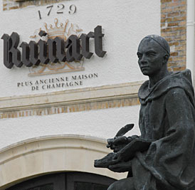 Dom Thierry Ruinart (1657-1709)